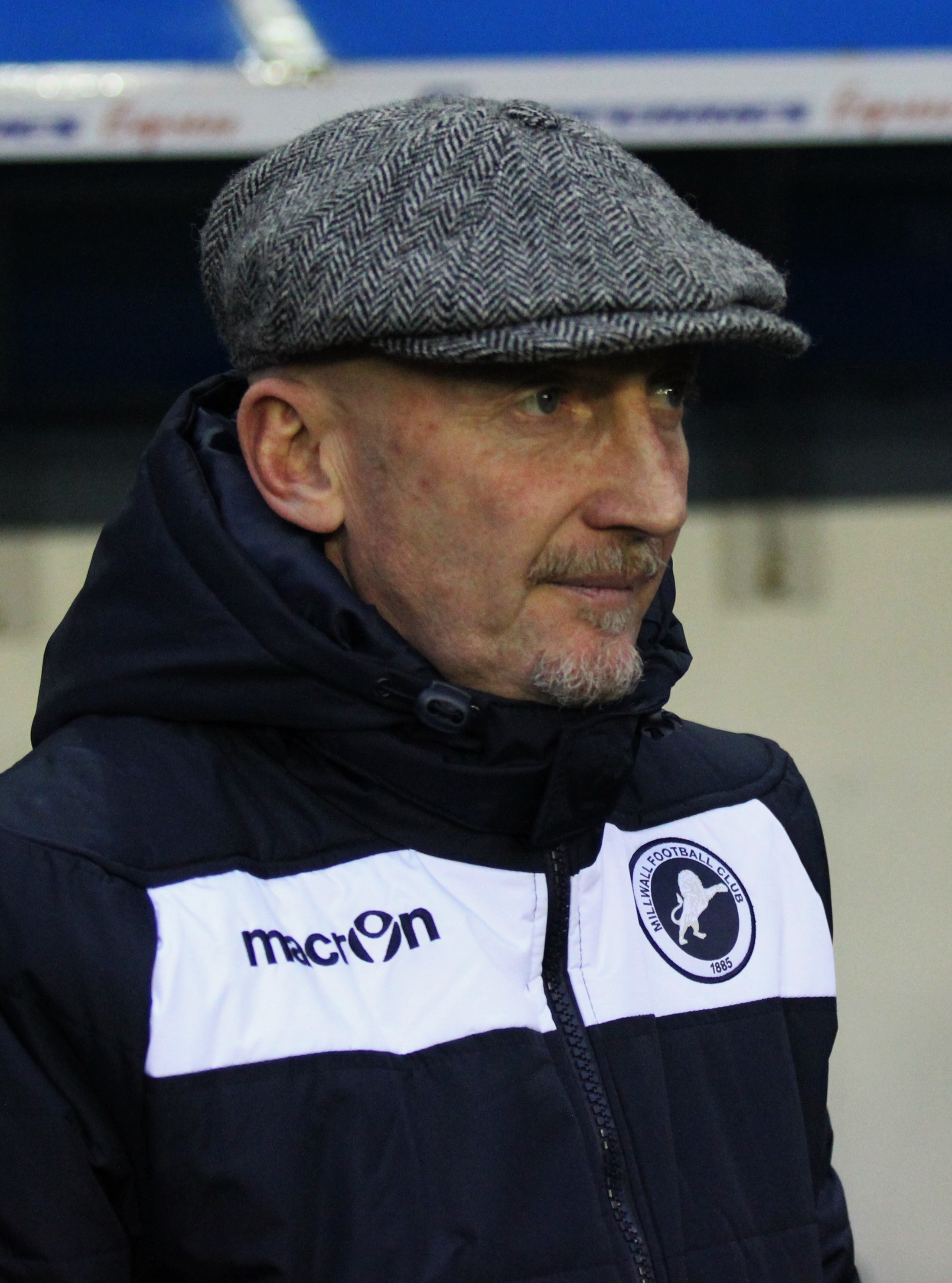 Ian Holloway managing Millwall against Bradford City at The Den, London on 3 January 2015